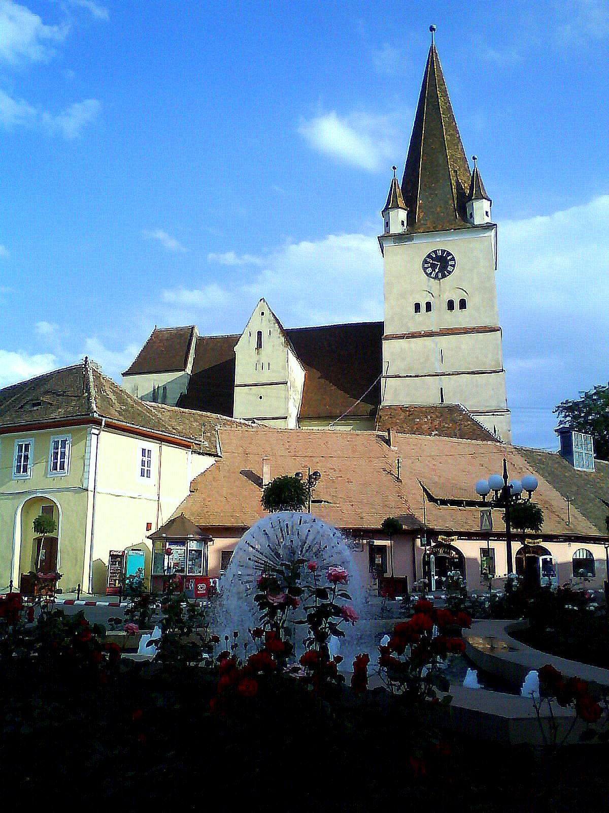 Cisnadie / Heltau